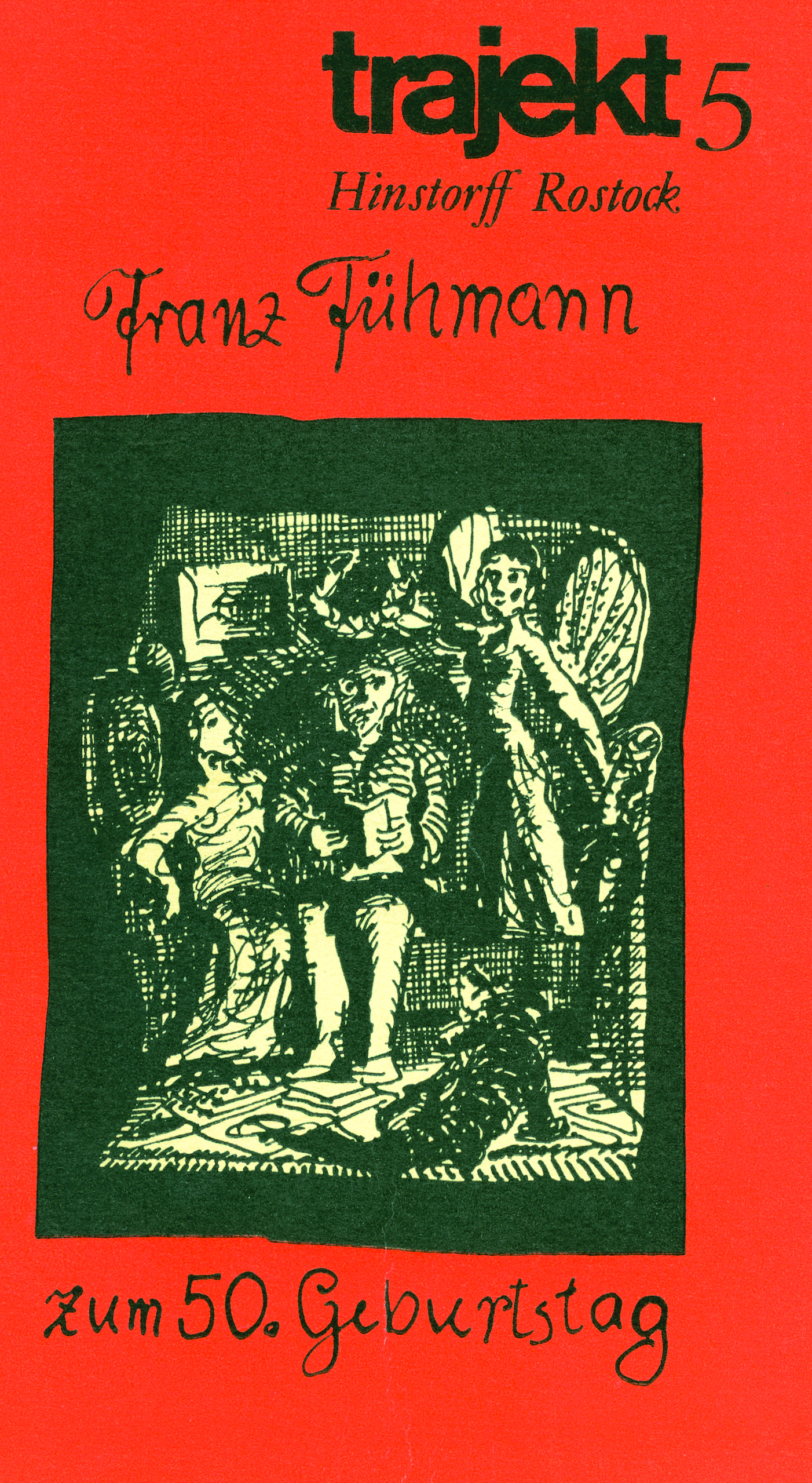 This is the title page of No. 5 (1972) of the German magazine "Trajekt", edited by the publishing house "Hinstorff-Verlag" in Rostock. It is dedicated to Franz Fühmann on the occasion of his 50th birthday.